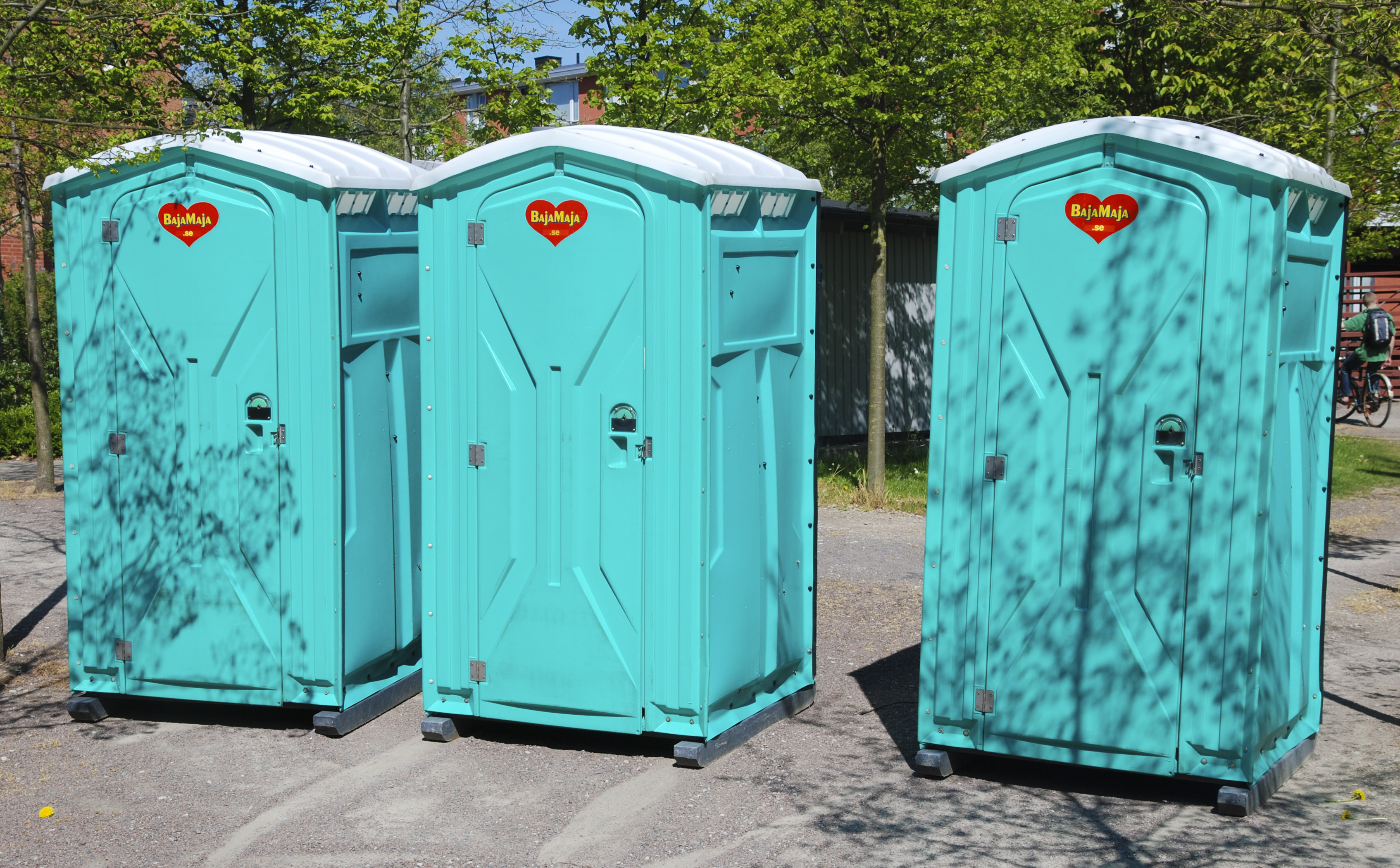 A "mobile toilet" from the Swedish company Baja-Maja